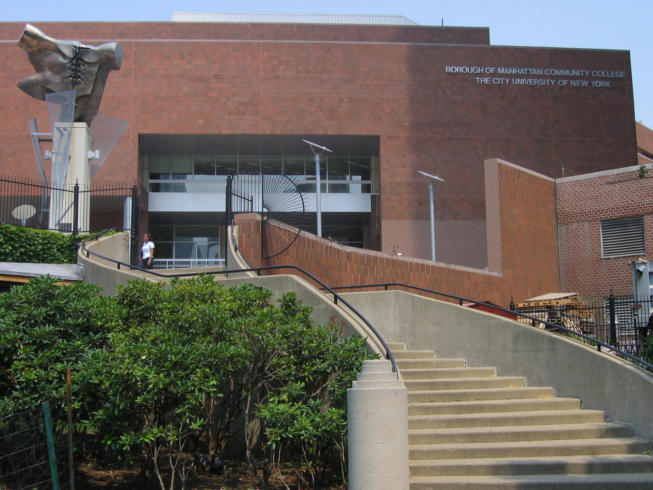 Borough of Manhattan Community College, located adjacent to Washington Market Park in Tribe-ca.